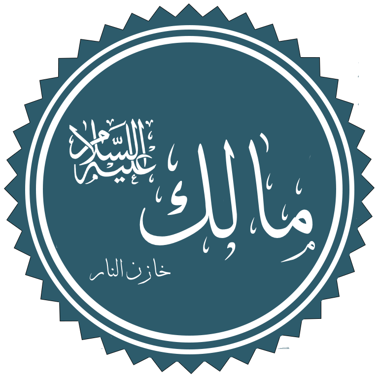 Maalik Islamic calligraphy